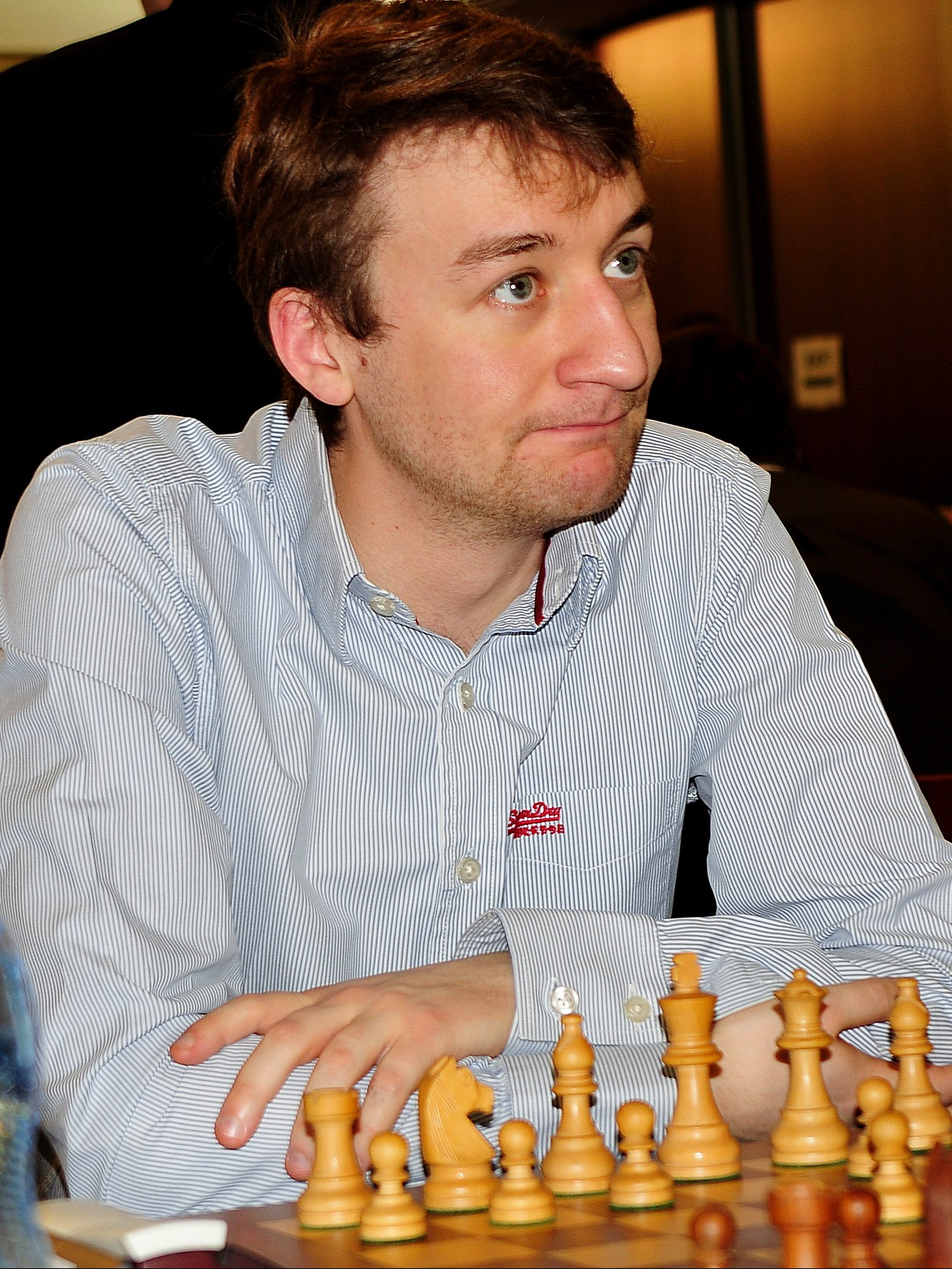 GM Luke McShane, European Chess Team Championship Warsaw 2013